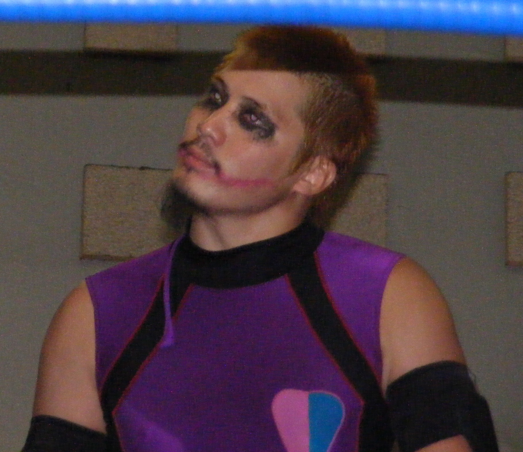 Professional wrestler Keita Yano at Chikara Young Lions Cup VIII.